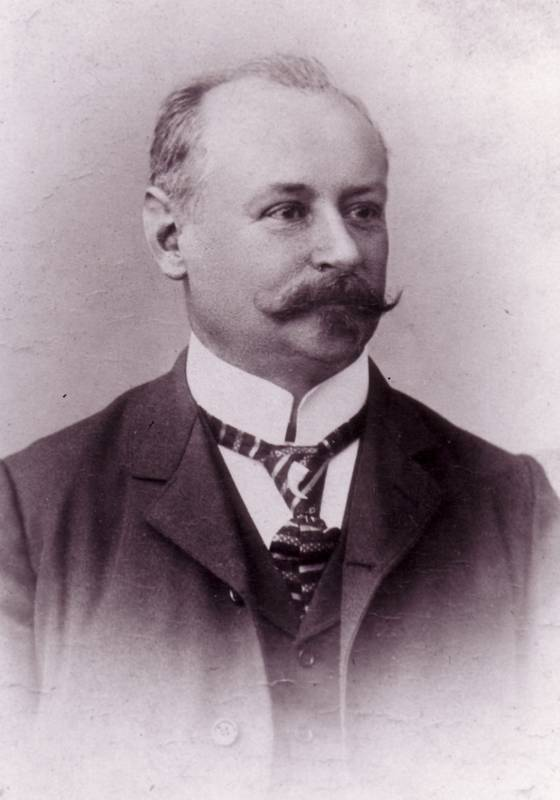 AdalbertSeitz